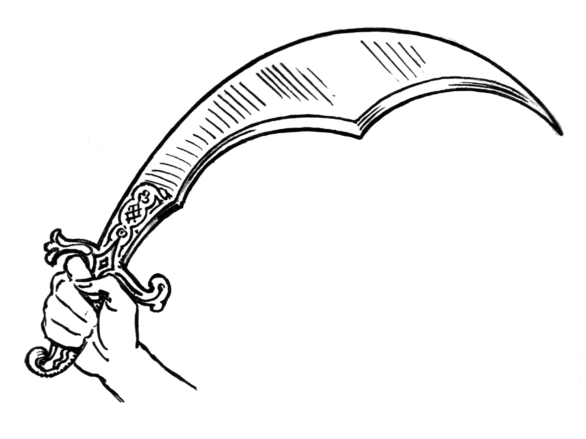 Line art drawing of a scimitar